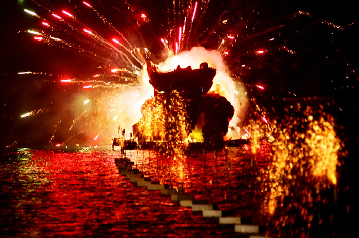 Drini 19:47, 10 December 2006 (UTC)